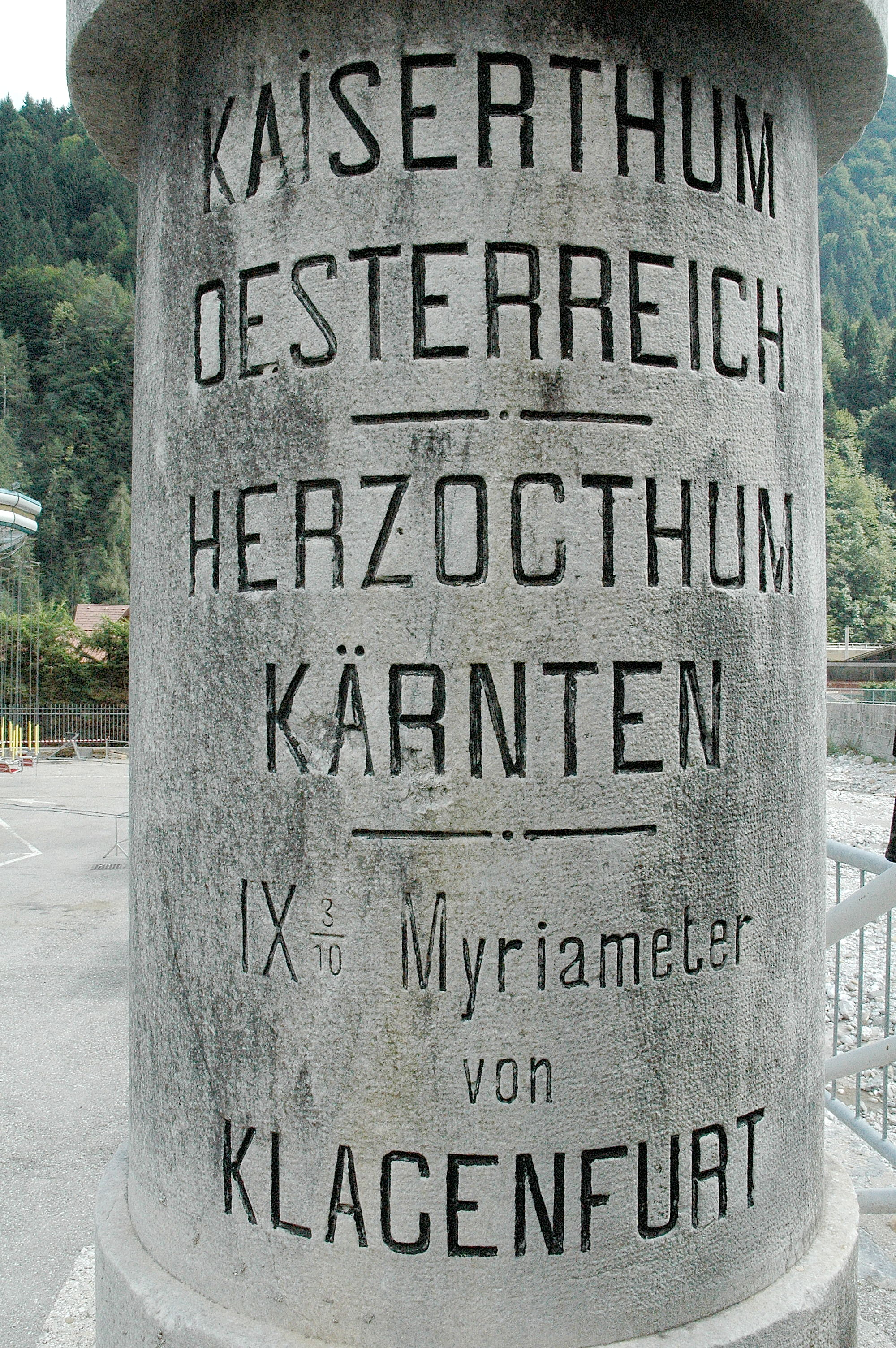 Old boundary stone in Pontebba, marking the former border between Austria-Hungary and Italy.